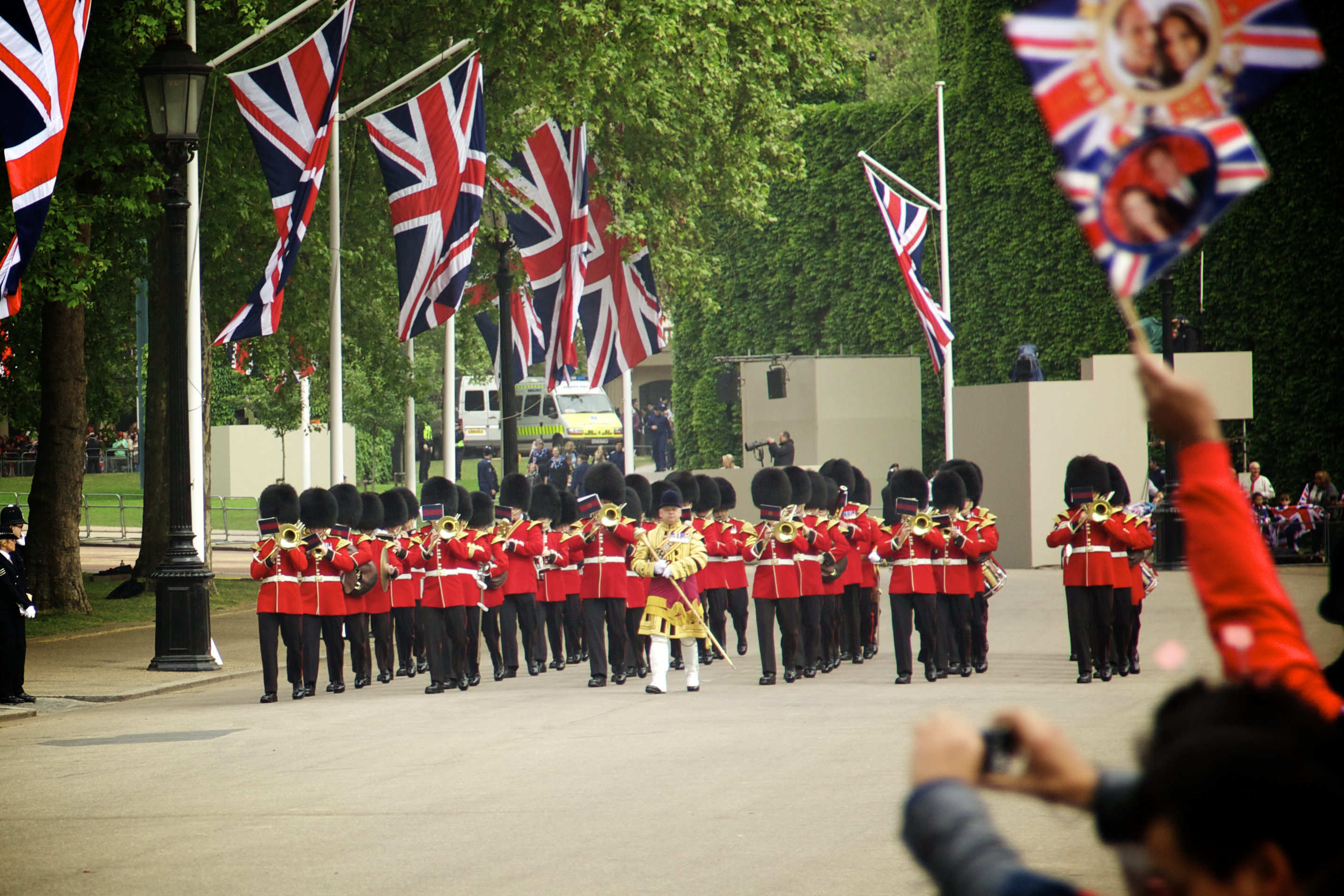 Wedding of Prince William, Duke of Cambridge, and Catherine Middleton